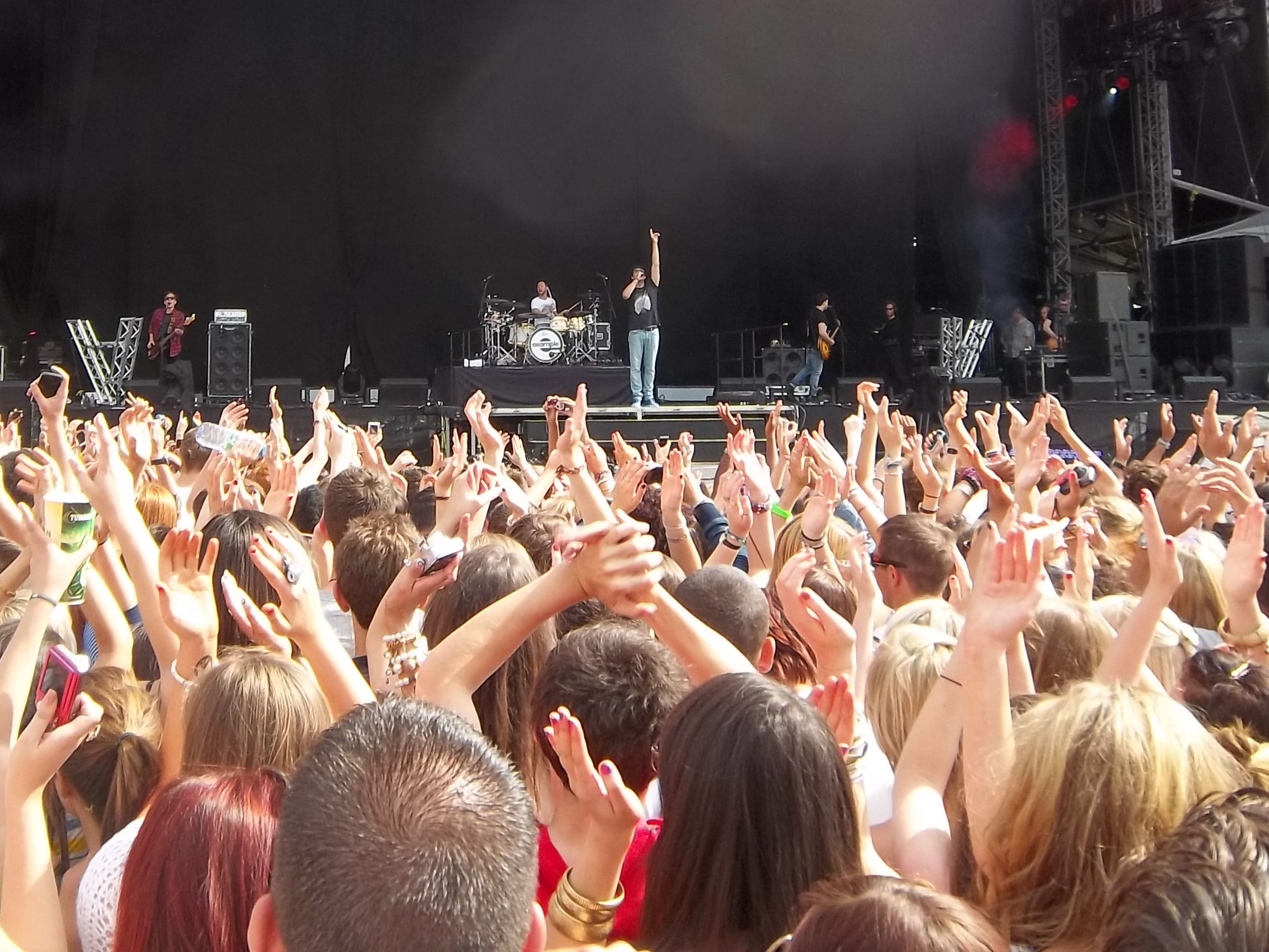 Example performs at the Wireless Festival in Hyde Park, London, July 2011.